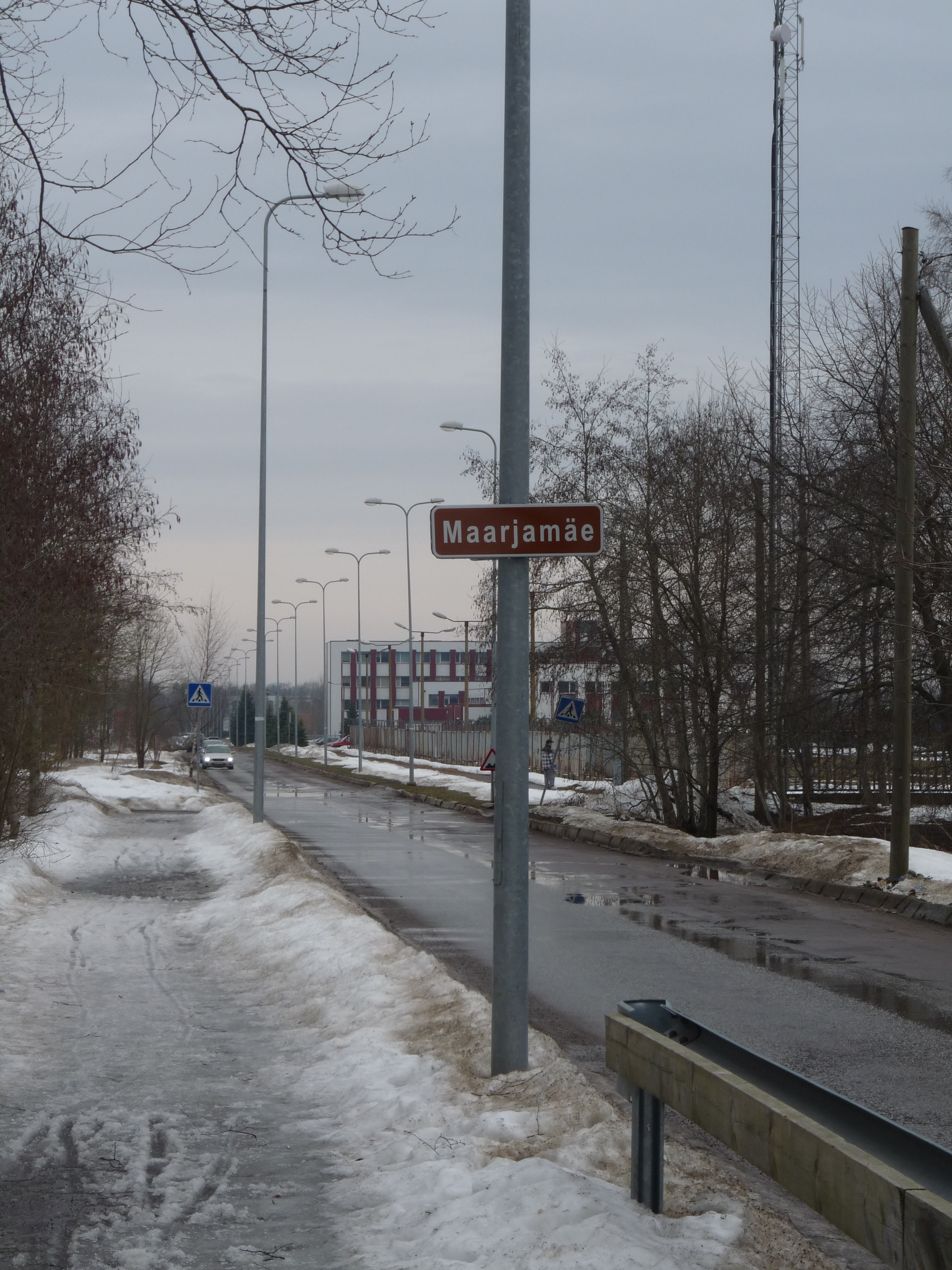 End of Kase street